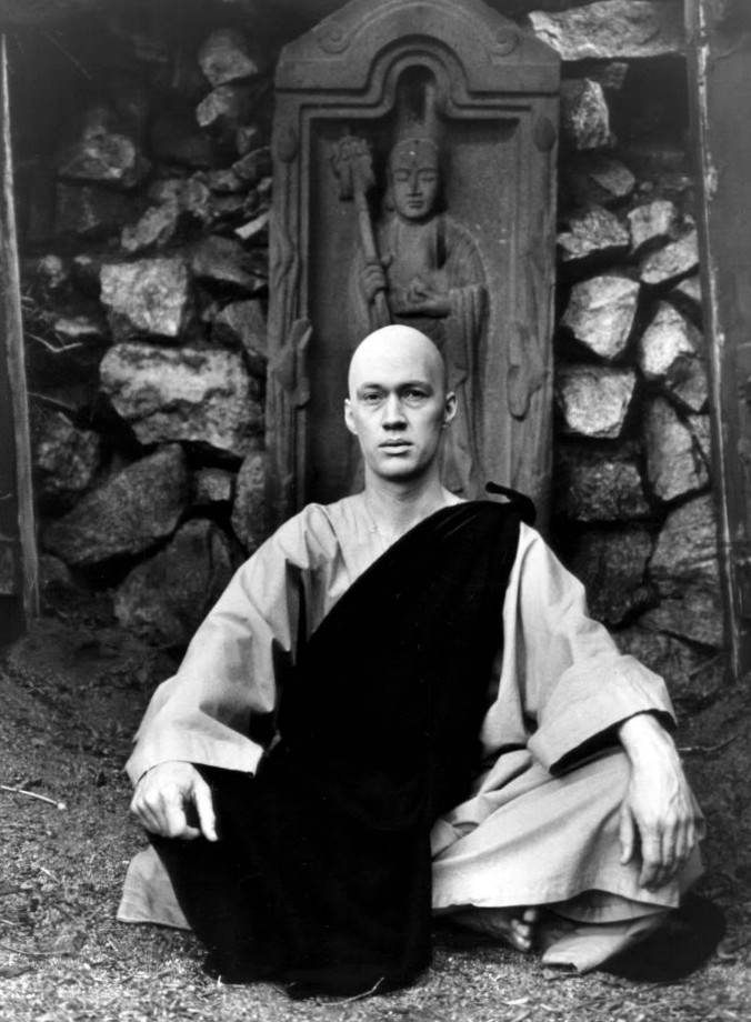 Photo of David Carradine from the television program Kung Fu.